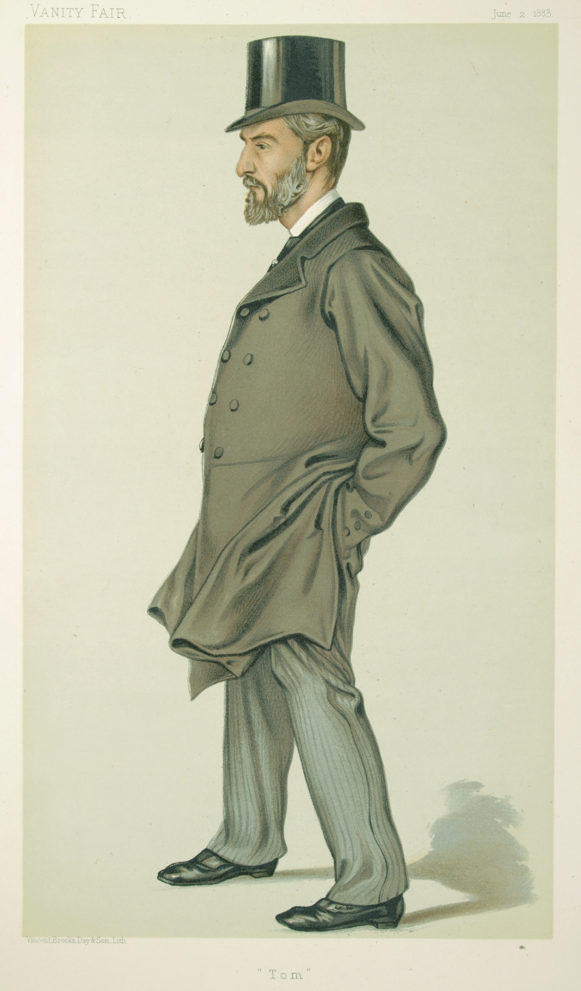 Statesmen No.422: Caricature of Mr Thomas Thornhill MP. Caption reads: "Tom"